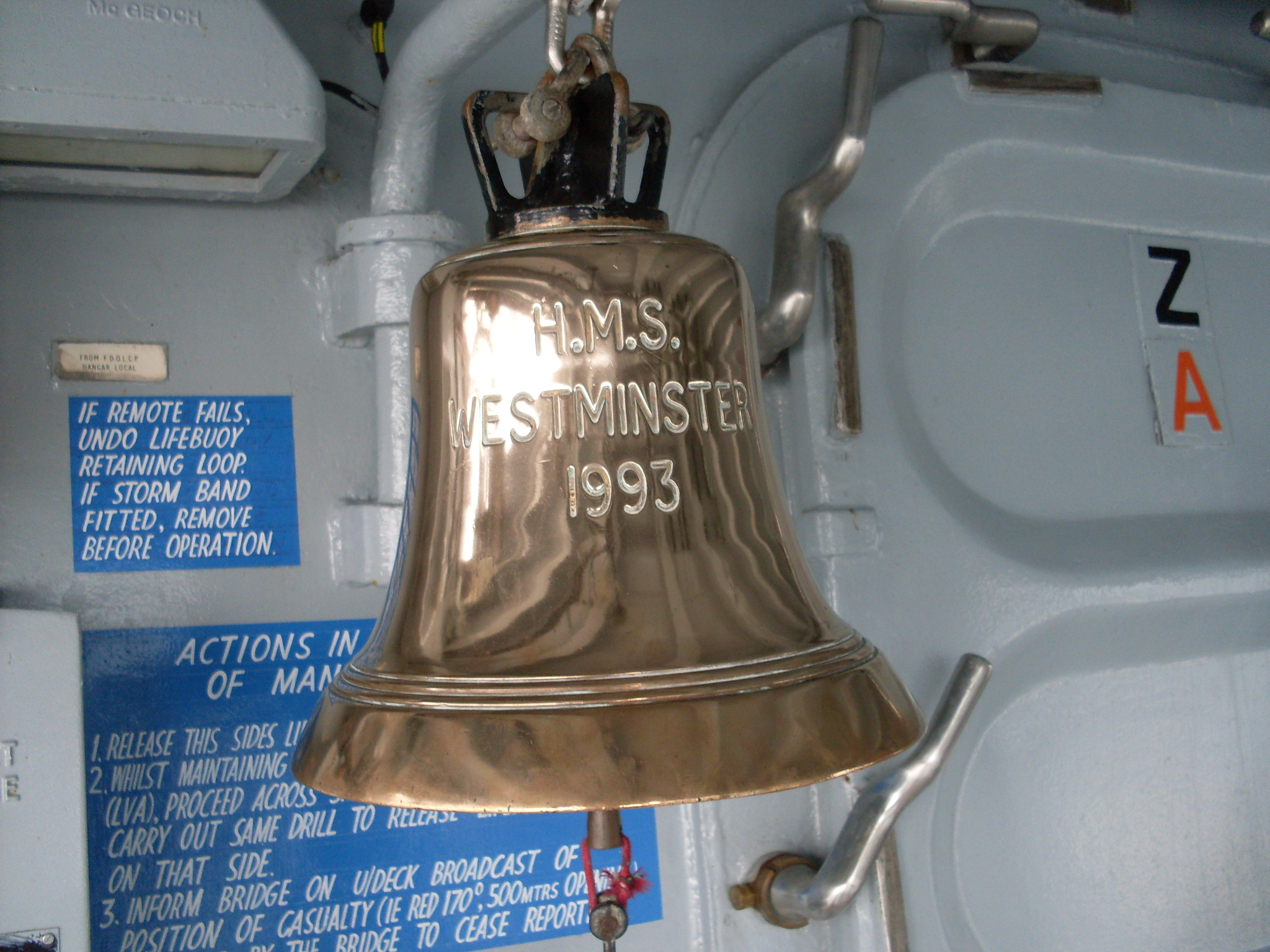 The Ship's Bell of HMS Westminster (F237)